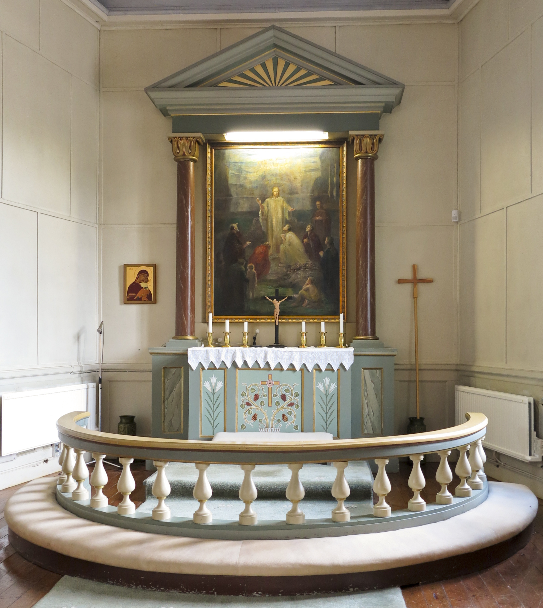 Seskarö Church in Haparanda Municipality in northern Sweden